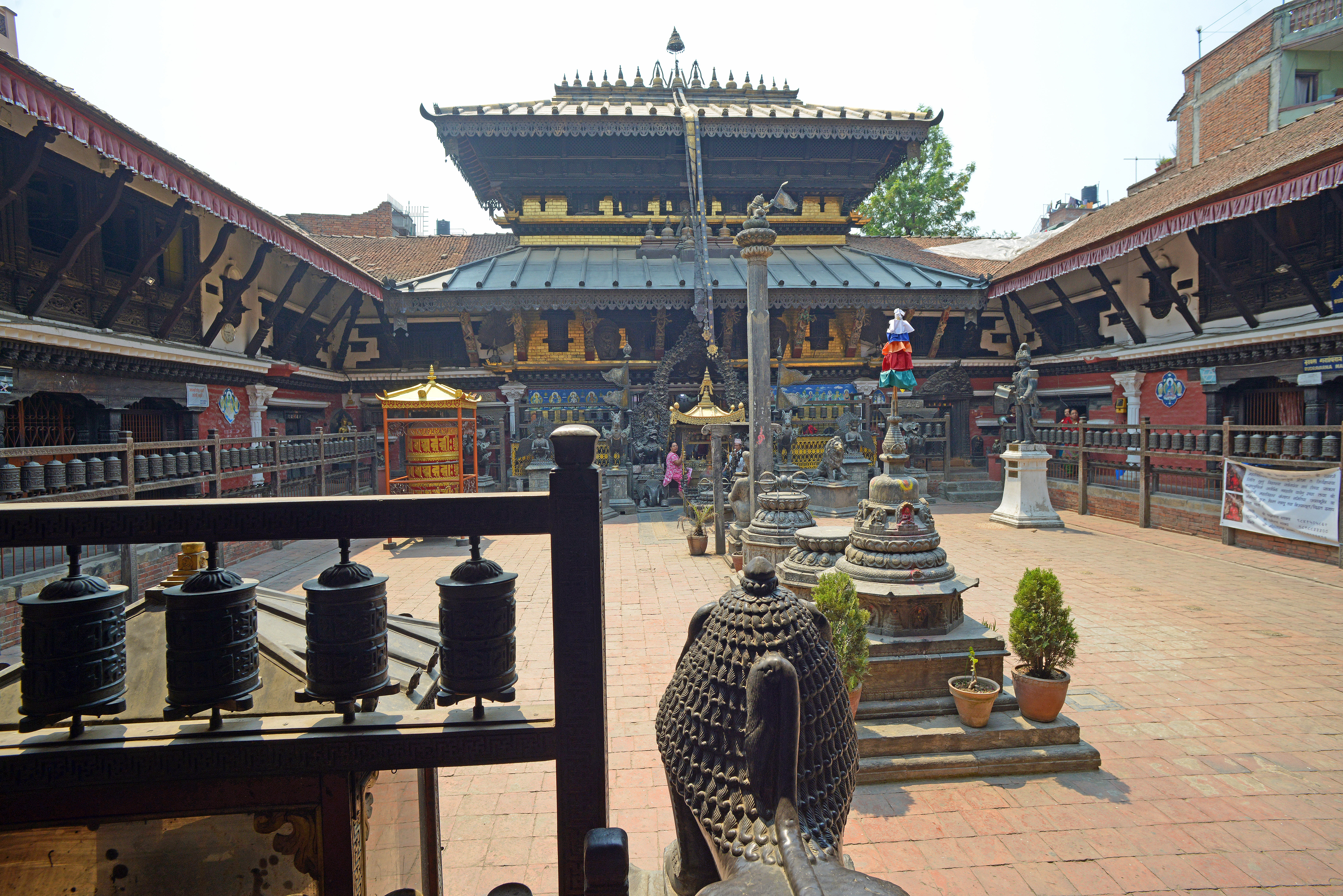 The main courtyard and temple of Rudravarna Mahavihar, Patan, Nepal. also known as Uku Bahal